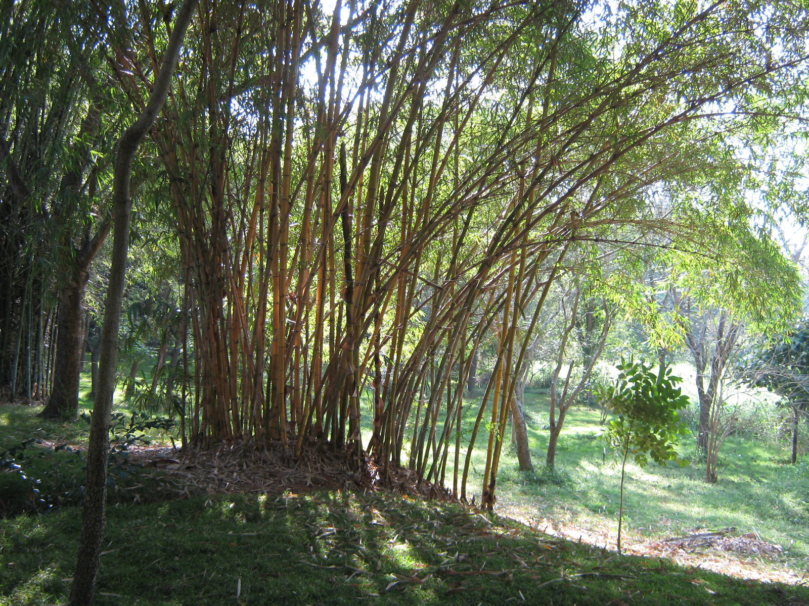 Mysore, India.